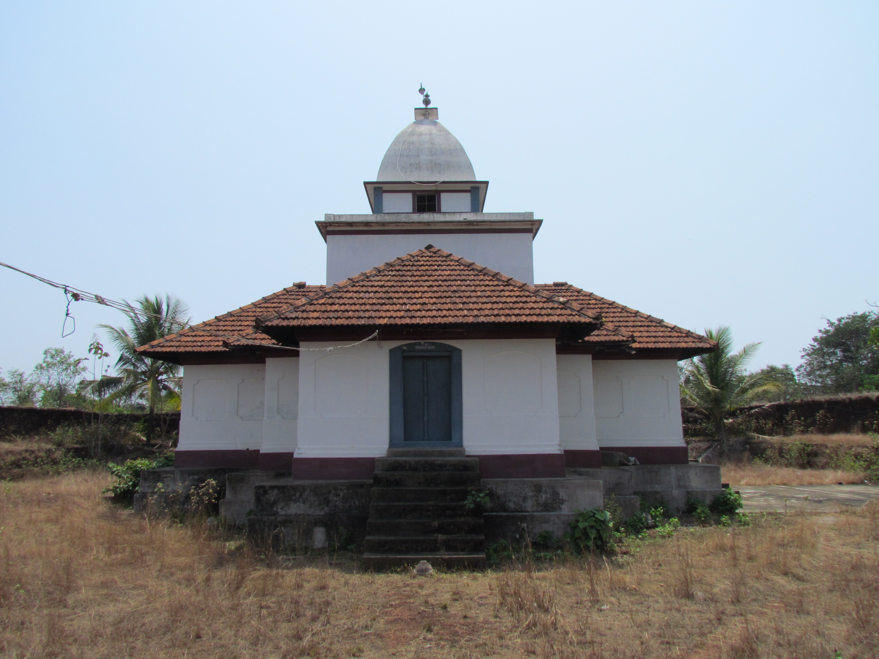 a dormant monument